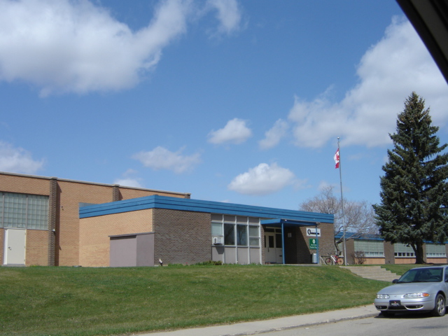 Howard Coad School / Royal West Campus / Mount Royal Collegiate Mount Royal, Saskatoon